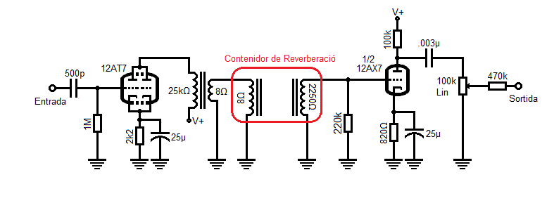 Electronic circuit with valves for Spring Reverb used in Guitar Amps.